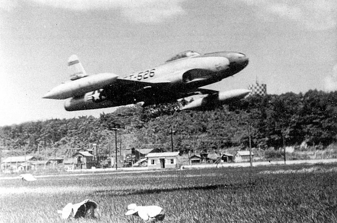 Lockheed F-80C-10-LO Shooting Star 49-526 7th Fighter-Bomber Squadron, 49th Fighter-Bomber Group taking off from Itazuke AB, Japan, 14 August 1950. Note the Japanese working in the field ignoring the F-80 as it takes off over them. This aircraft was damaged by MiG-15s in April 1951, then written off at Taegu AB, Korea and sent to reclamation.